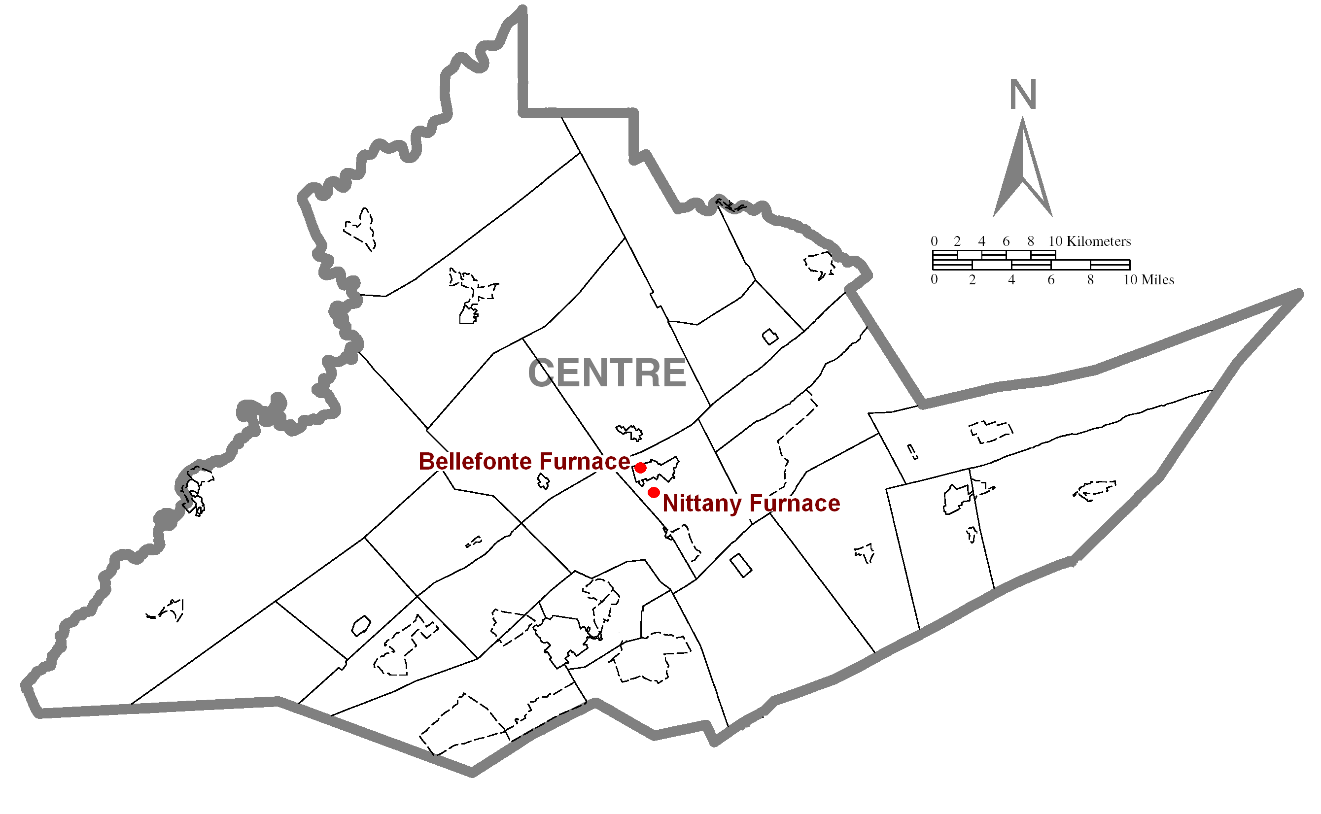 Map showing location of Bellefonte Furnace and Nittany Furnace in Centre County, Pennsylvania